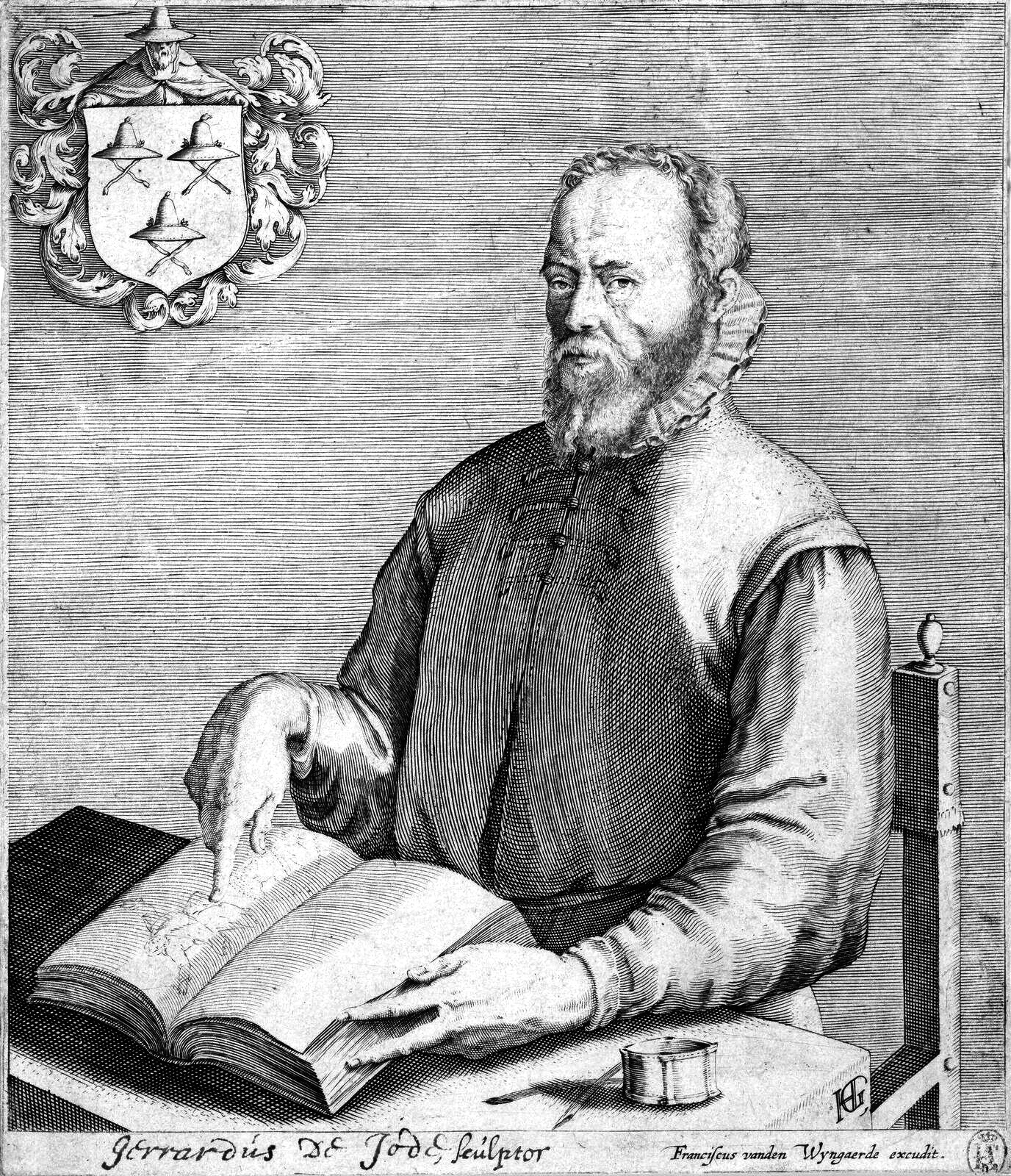 Gerard de Jode engraving 16.7 x 14.8 cm ca 1580 - 1590